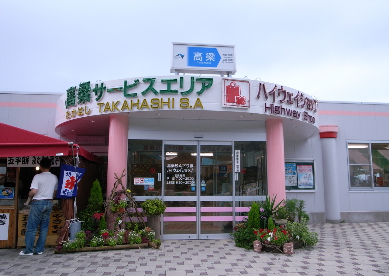 Takahashi rest area in Takahashi, Okayama, Japan.